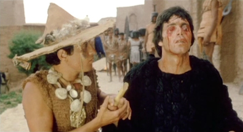 Screenshot from Edipo re